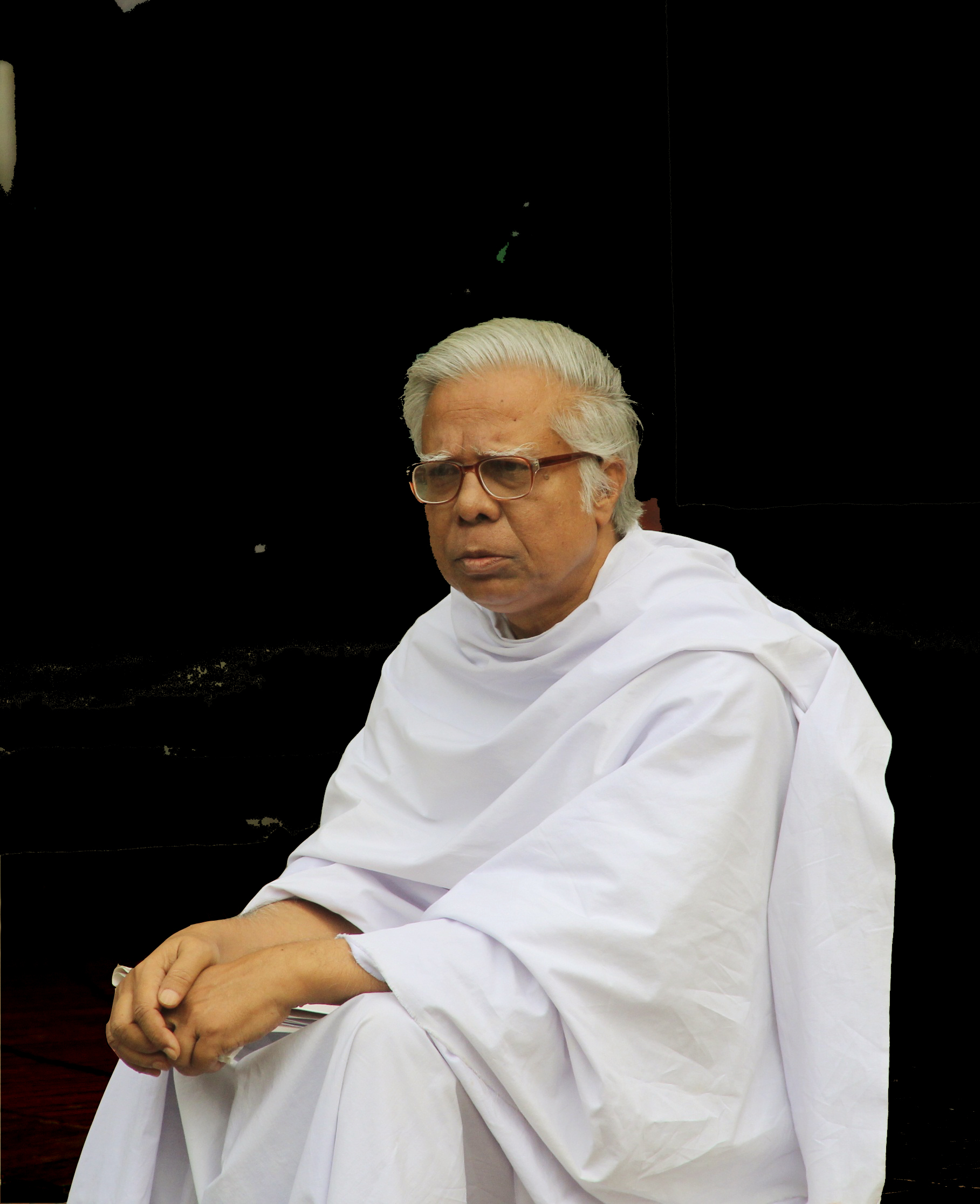 Syed Abul Maksud Portrait